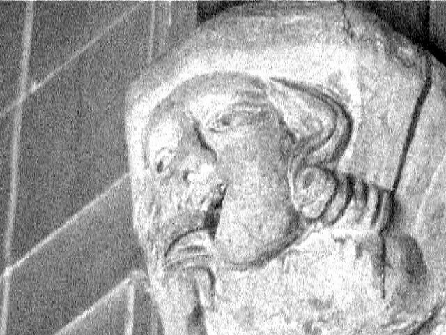 A 14th century corbel at the east end of the south aisle of St.Mary's Church on which is carved "a man with a toothache" (Tompkins) taken with my video on zoom inside the church in May 2004 by Sibadd| 22:27, 1 April 2006 (UTC)